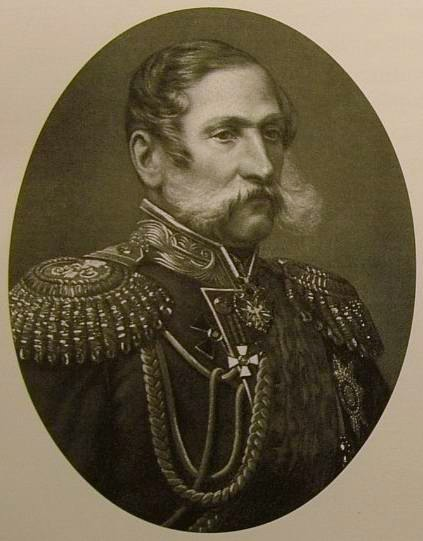 Annenkov Nikolai Nikolaevitsch (1799-1865). Russian poet & Minister of stats Kontrol